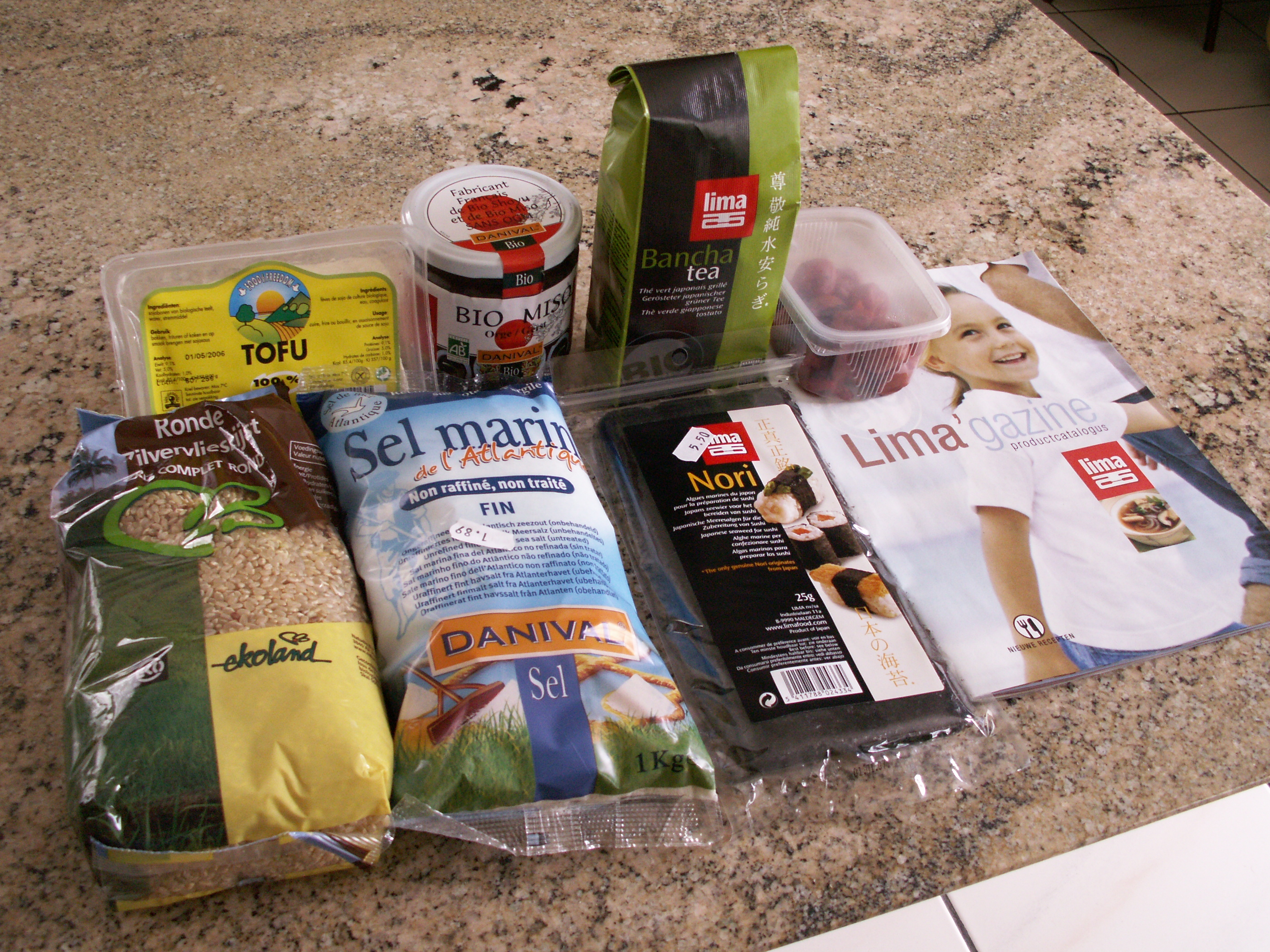 Picture with some basic macrobiotic ingredients: (from left to right, 1st line) tofu, wheat miso, bancha tea, umeboshi prumes (from left to right, 2nd line) brown rice, sea salt, nori